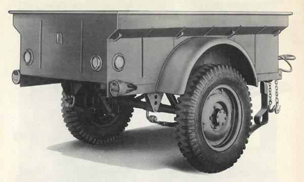 Jeep ¼-ton trailer, 2-wheel, cargo, 1942-43 (Bantam T-3 or Willys MBT) SNL G-529, right rear